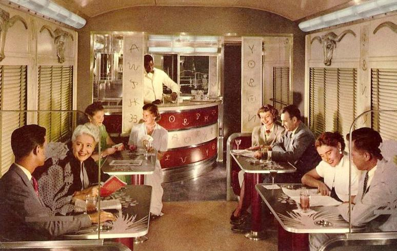 Postcard photo of the interior of the Southern Pacific train "Sunset Limited"'s lounge car "Pride of Texas".